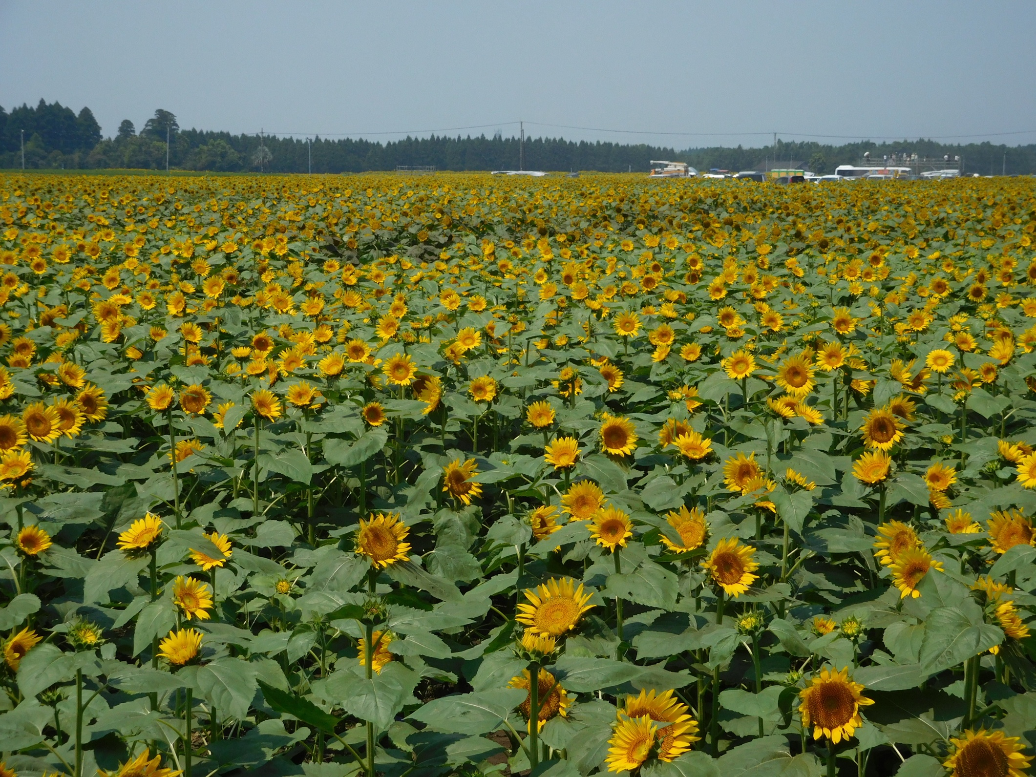 The Sunflower Field at Takanabe Town, Miyazaki Prefecture, Japan)